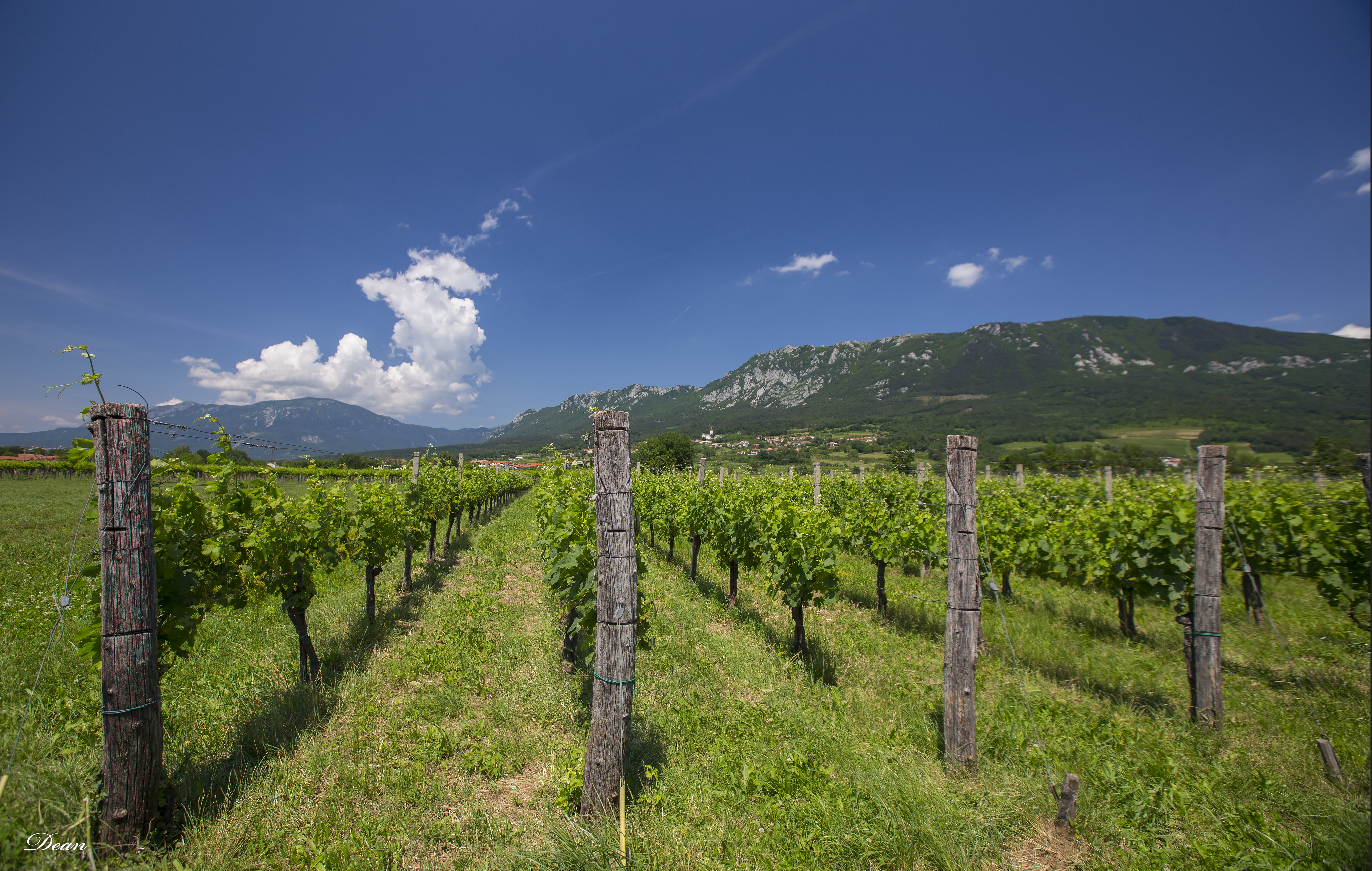 A view from vineyard near Zemono in Vipava Valley